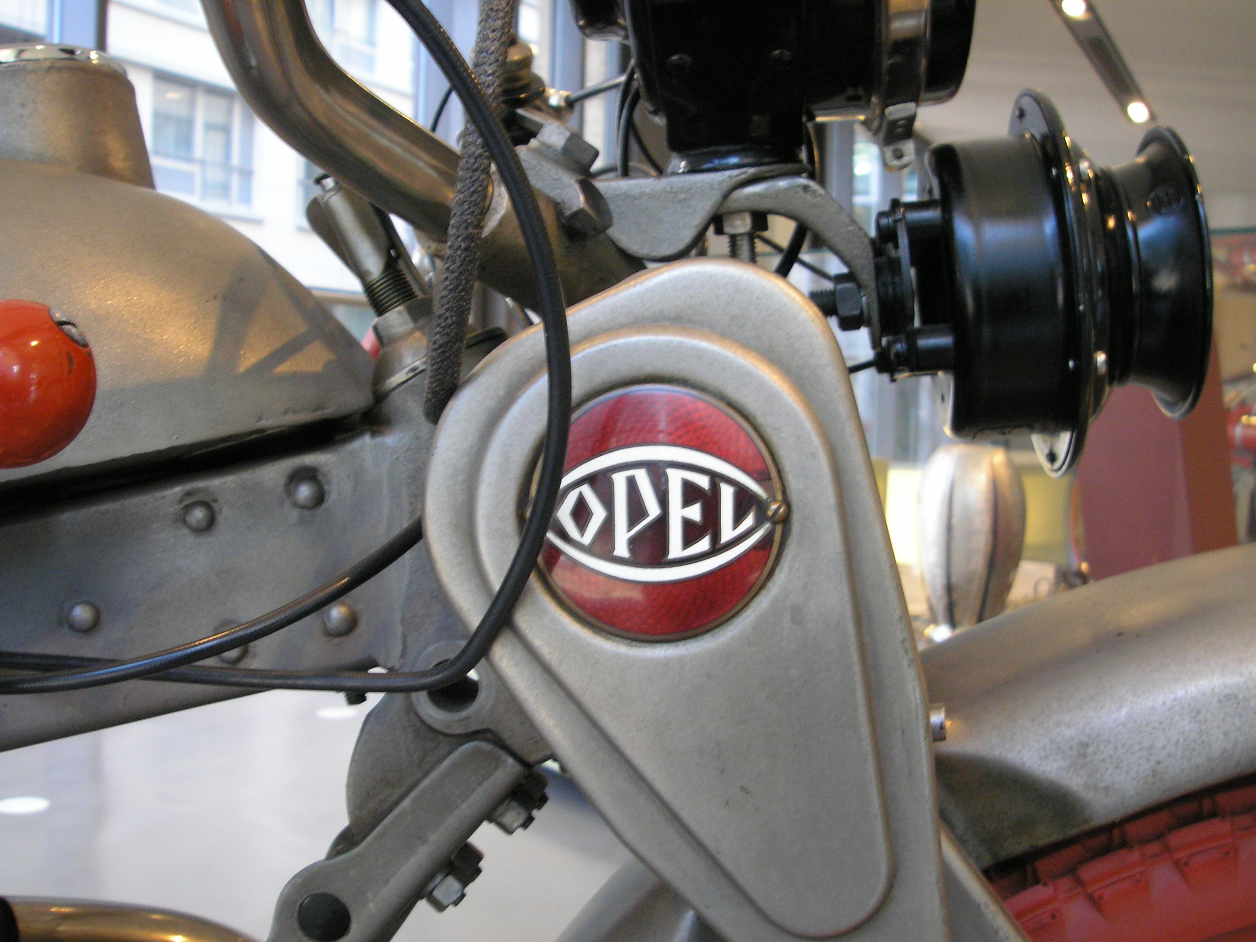 Description: Opel Motoclub, im Opel Zentrum in Berlin an der Friedrichstraße. Baujahr 1929, 1 Zylinder, 16 oder 22 PS, bis zu 125 km/h. Erzeugt in einer damals neuartigen Pressstahl Konstruktion, was somit den üblichen Stahlrohrrahmen ersetzte und das Gewicht, die Kosten und die Produktionszeiten senken konnte. Beliebte Maschine wegen wenig Vibration im Geradeauslauf und komfortable Sitze. The Opel Motoclub bike, in the Opel Zentrum in Berlin at Friedrichstraße. Model from 1929. A novel steel-press way of production replaced the usual tubular steel frame, thus lowering production costs, time, and the weight of the machine. The comfortable seats and the straight-ahead ride free of vibrations made this a popular model. Source: self-made, I release it into the public domain. Gryffindor 17:20, 9 March 2006 (UTC)